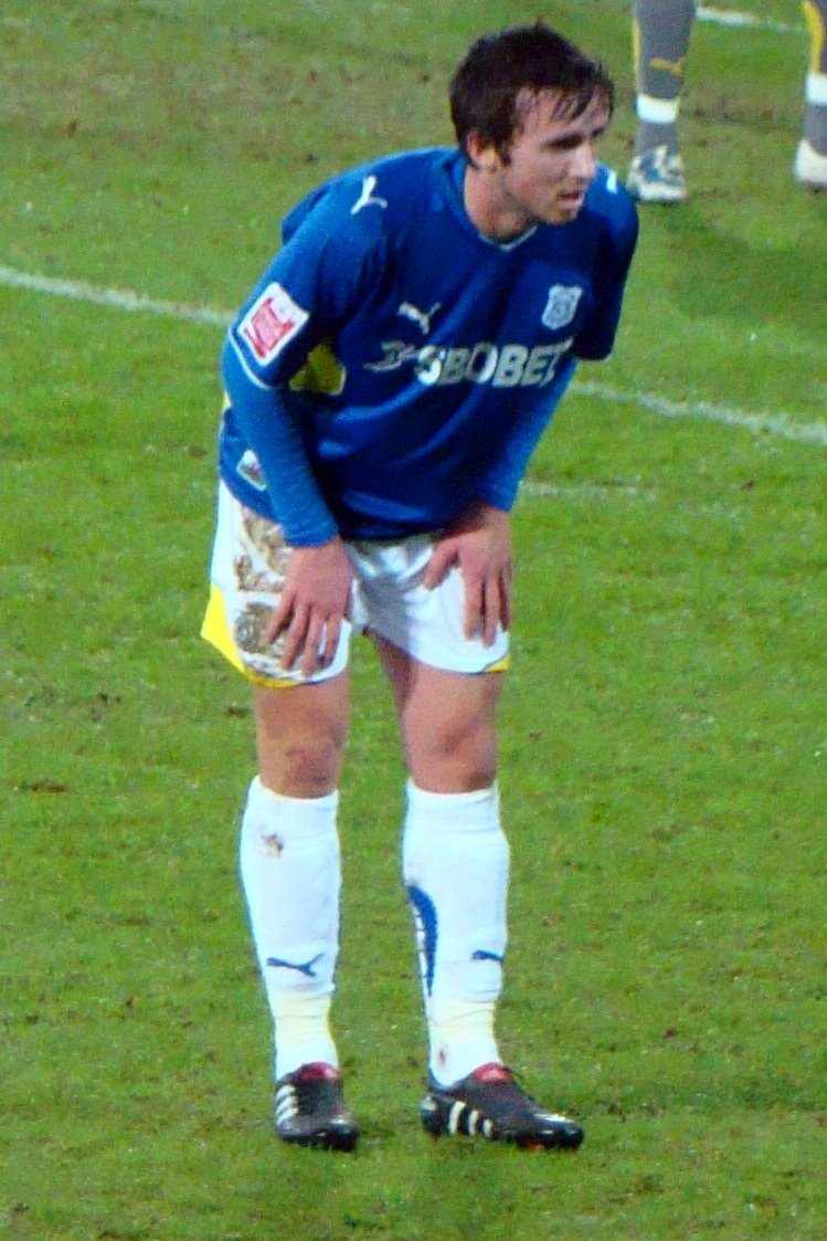 19/01/10 Cardiff City V Bristol City, FA Cup 3rd Round. Cardiff City Stadium, Cardiff, Wales